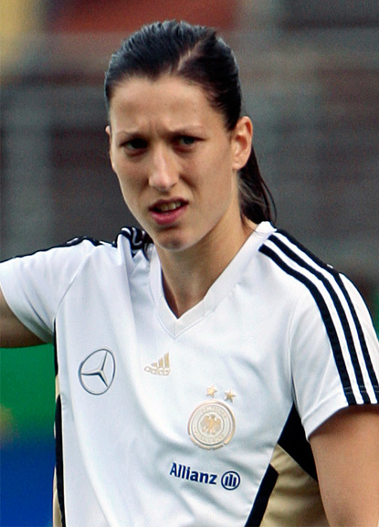 Verena Faißt, June 2011